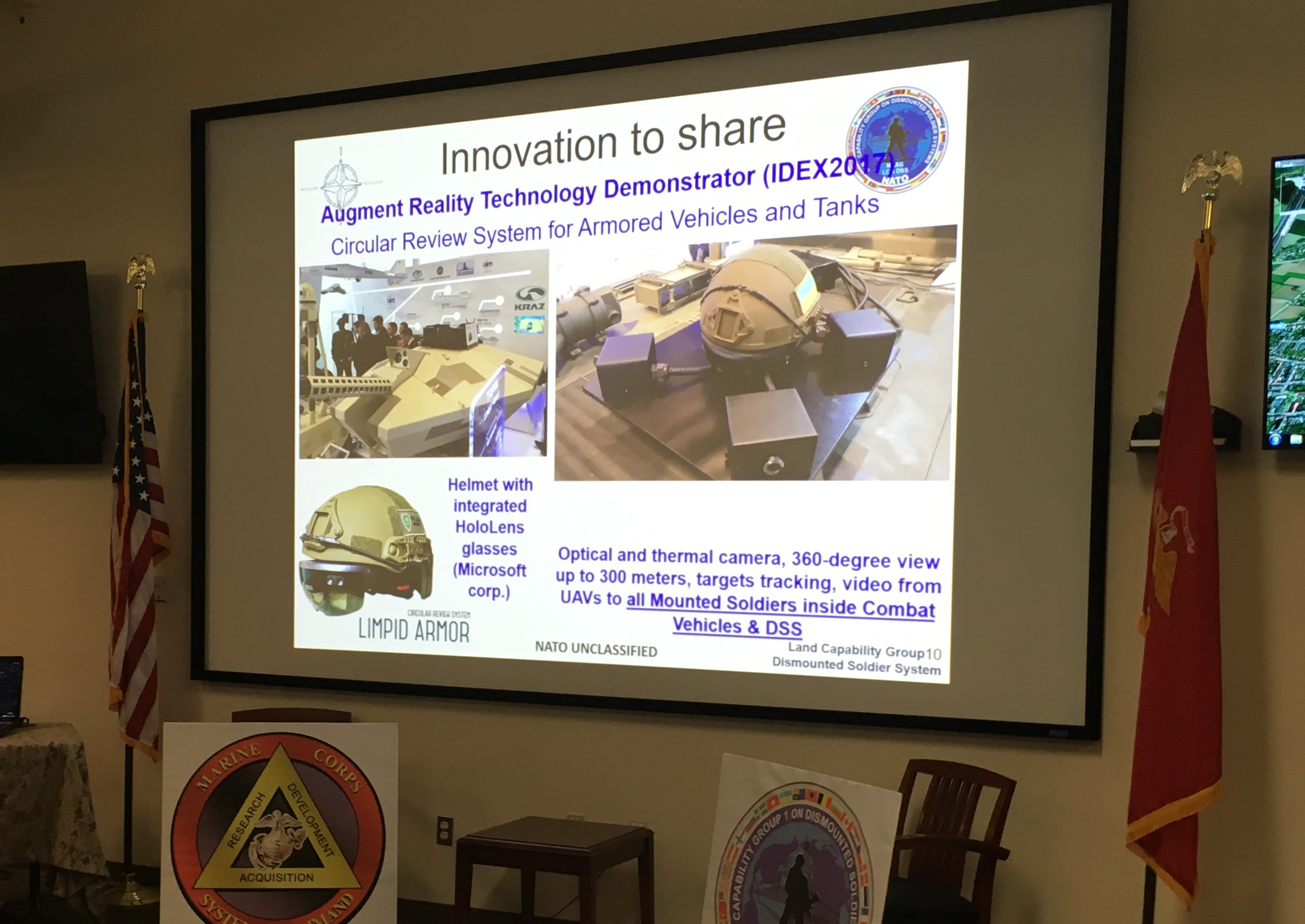 Limpid Armor presentation on LSG DSS Meeting (Quantico, USA, April 2017)